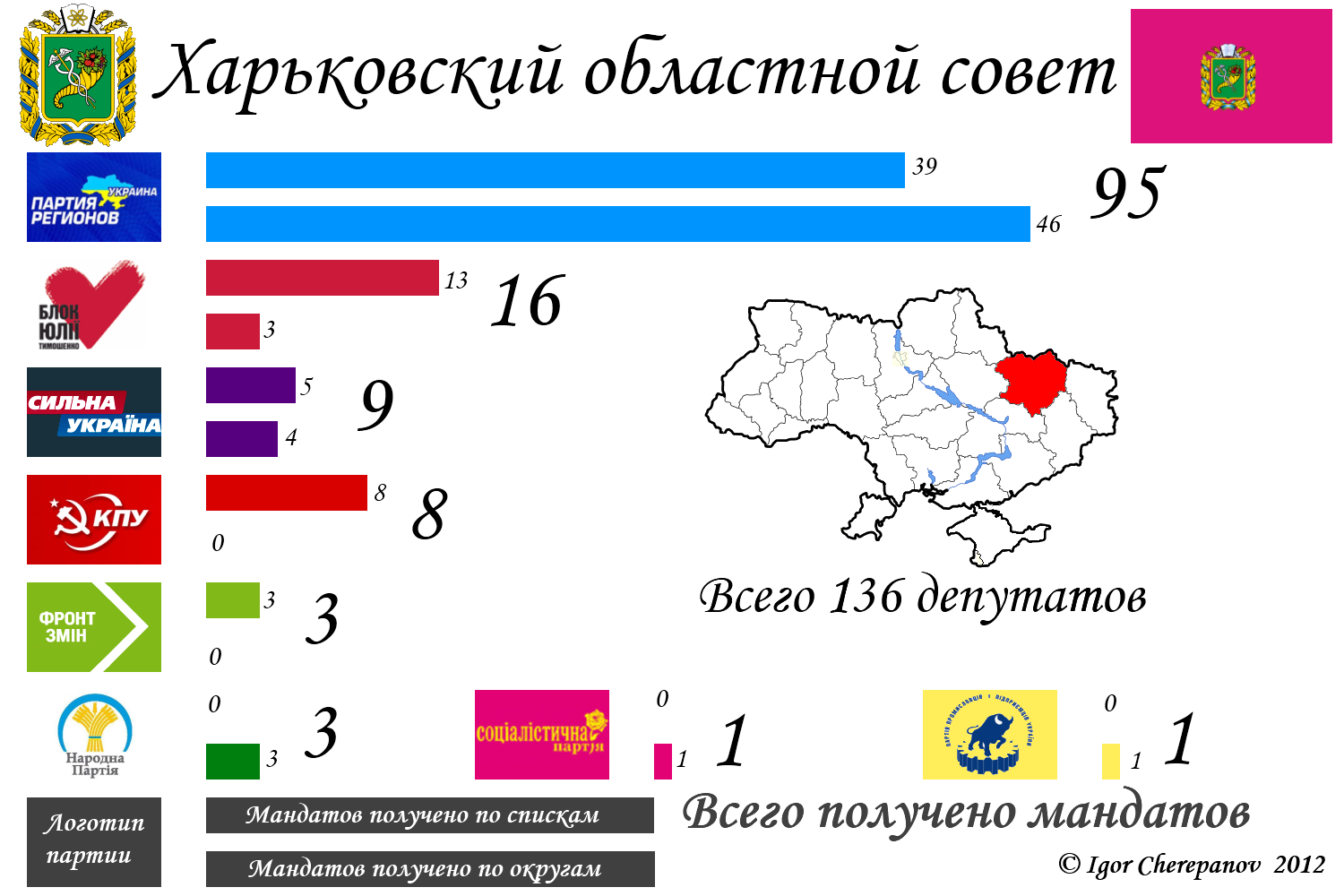 Results of Kharkov Oblast local election 2010